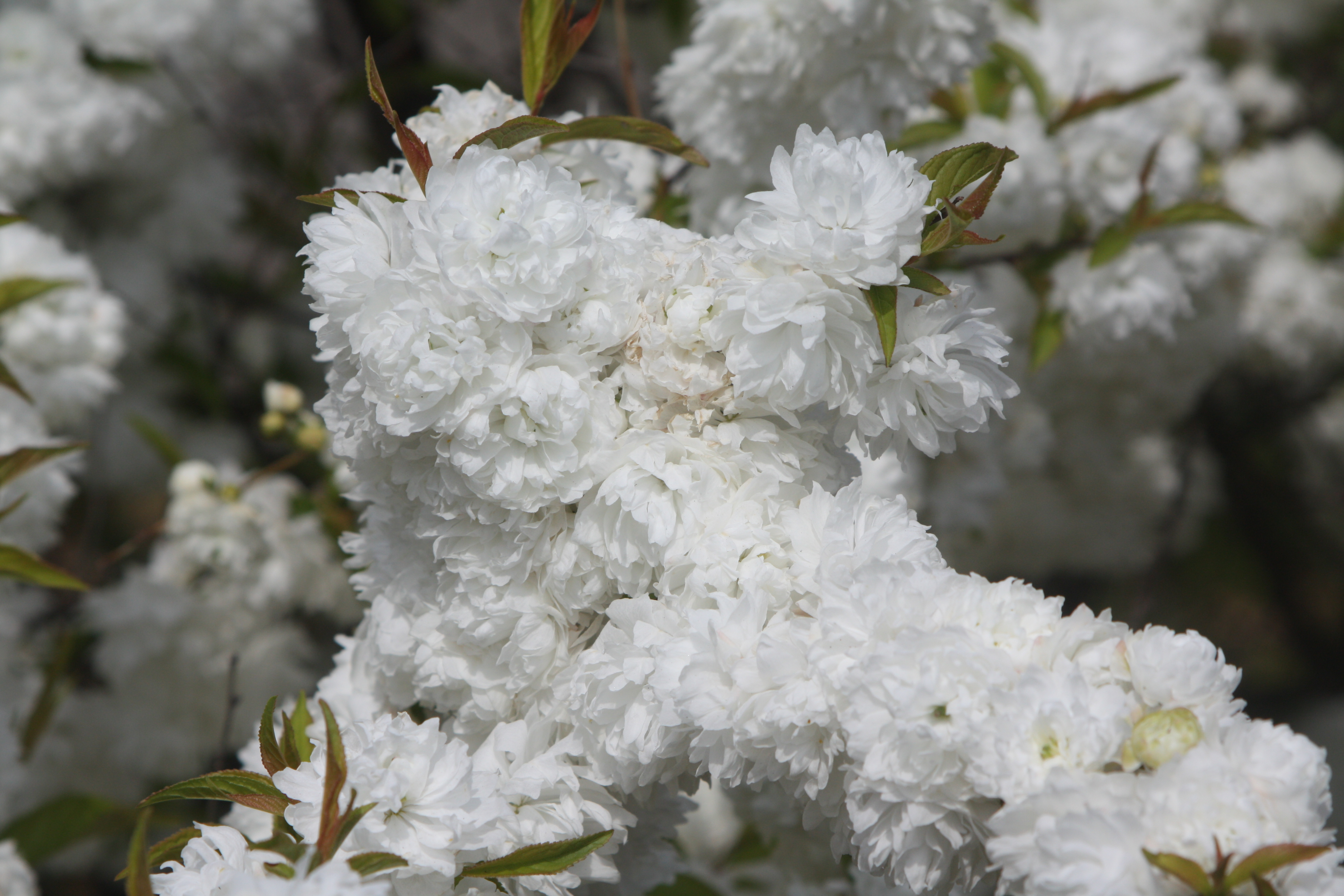 Prunus glandulosa for. albiplena